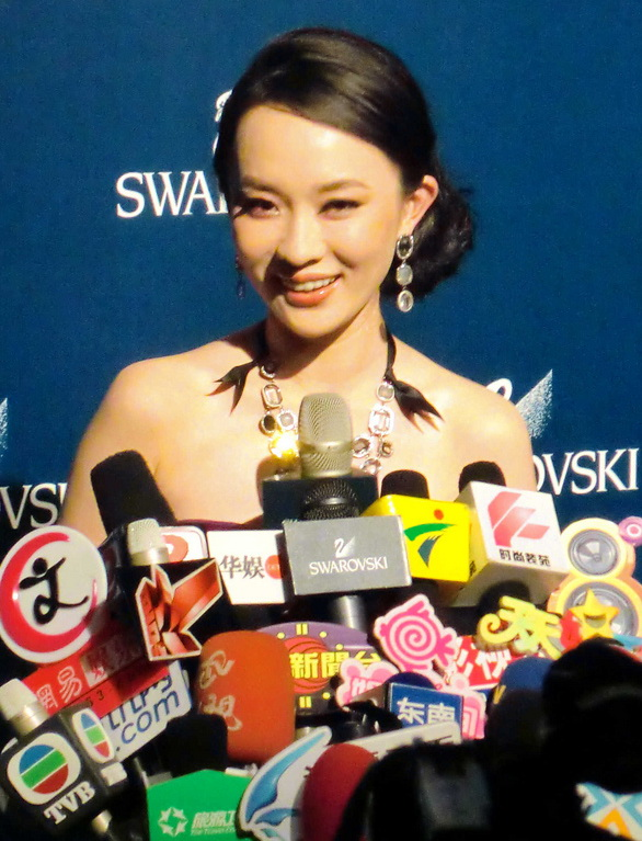 Huo Siyan at Swarovski Under the Blue A/W Collection Launching.